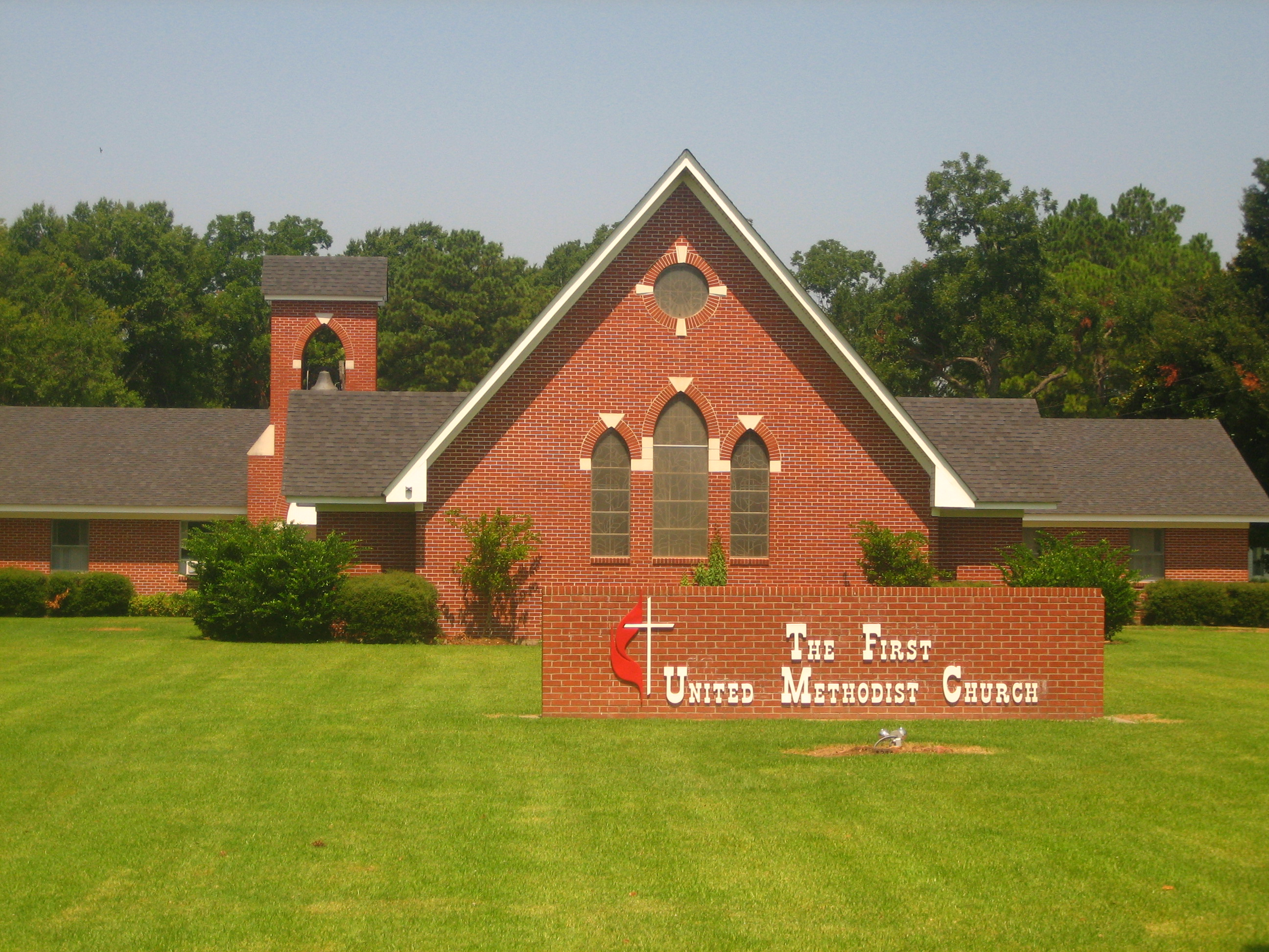 First United Methodist of St. Joseph, LA